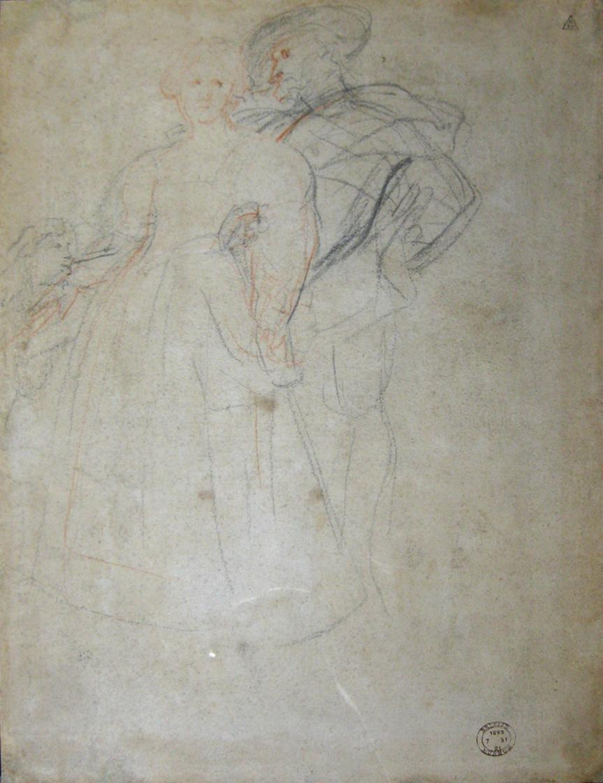 photo of a Sketch of Peter Paul Rubens with his second wife Helene Fourment and child. The image is found on the reverse side of the drawing of his first wife Isabella Brant. Image edited and cropped using Photoshop